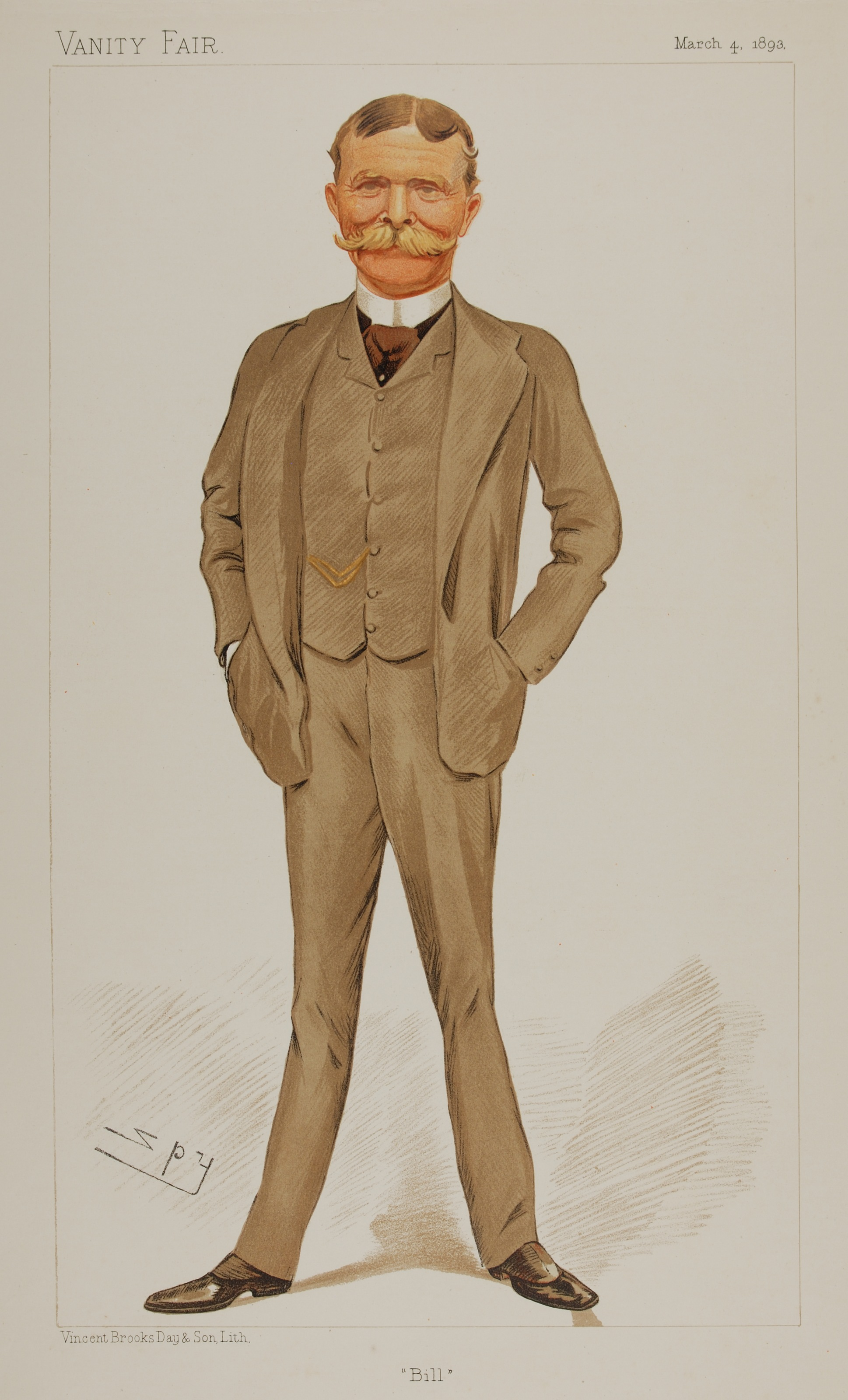 Men of the Day No. 557: Caricature of Colonel Hon. William Henry Peregrine Carington, M.P.. Caption read "Bill".